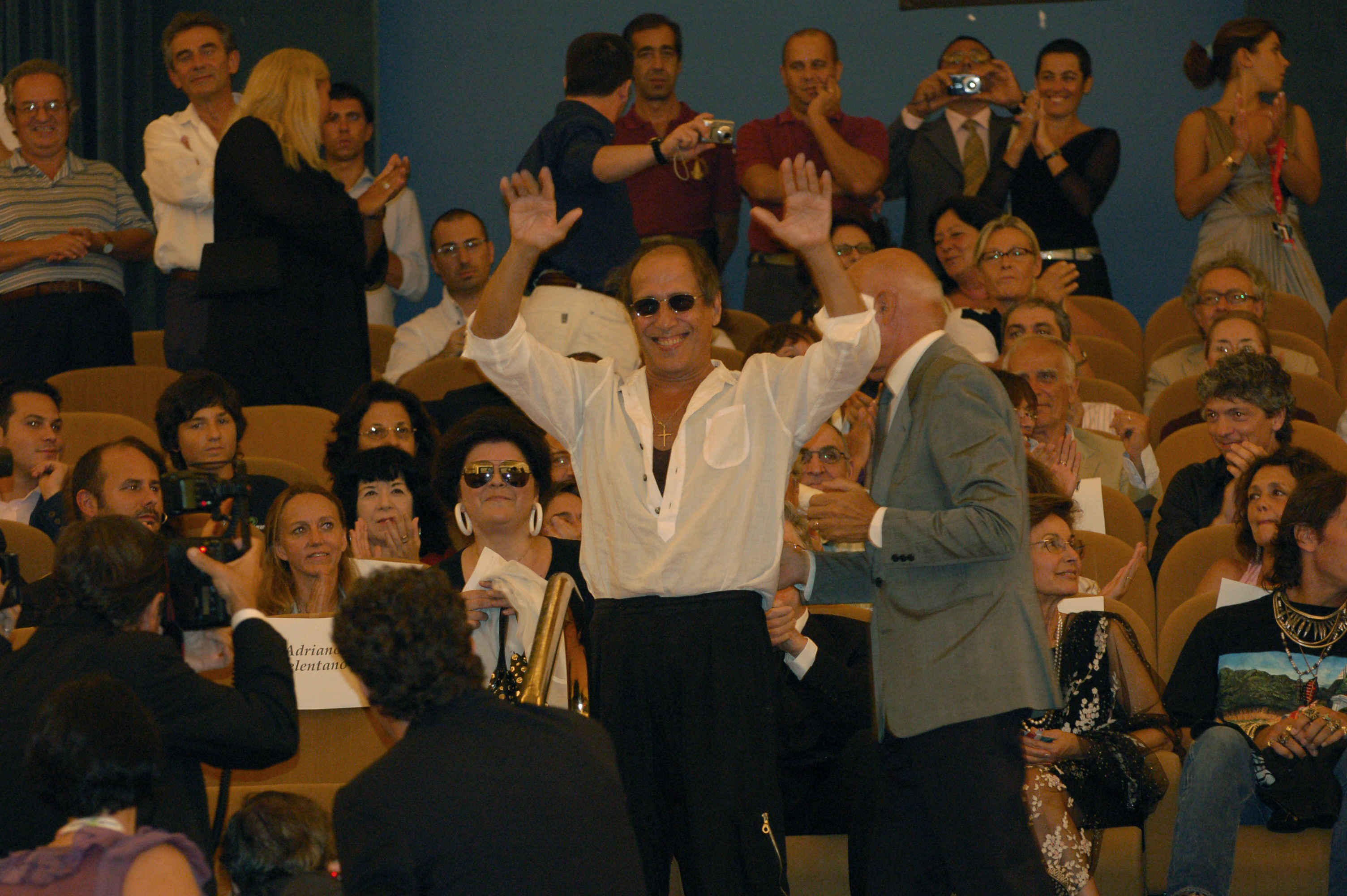 Adriano Celentano, famous Italian actor and singer. 2008.